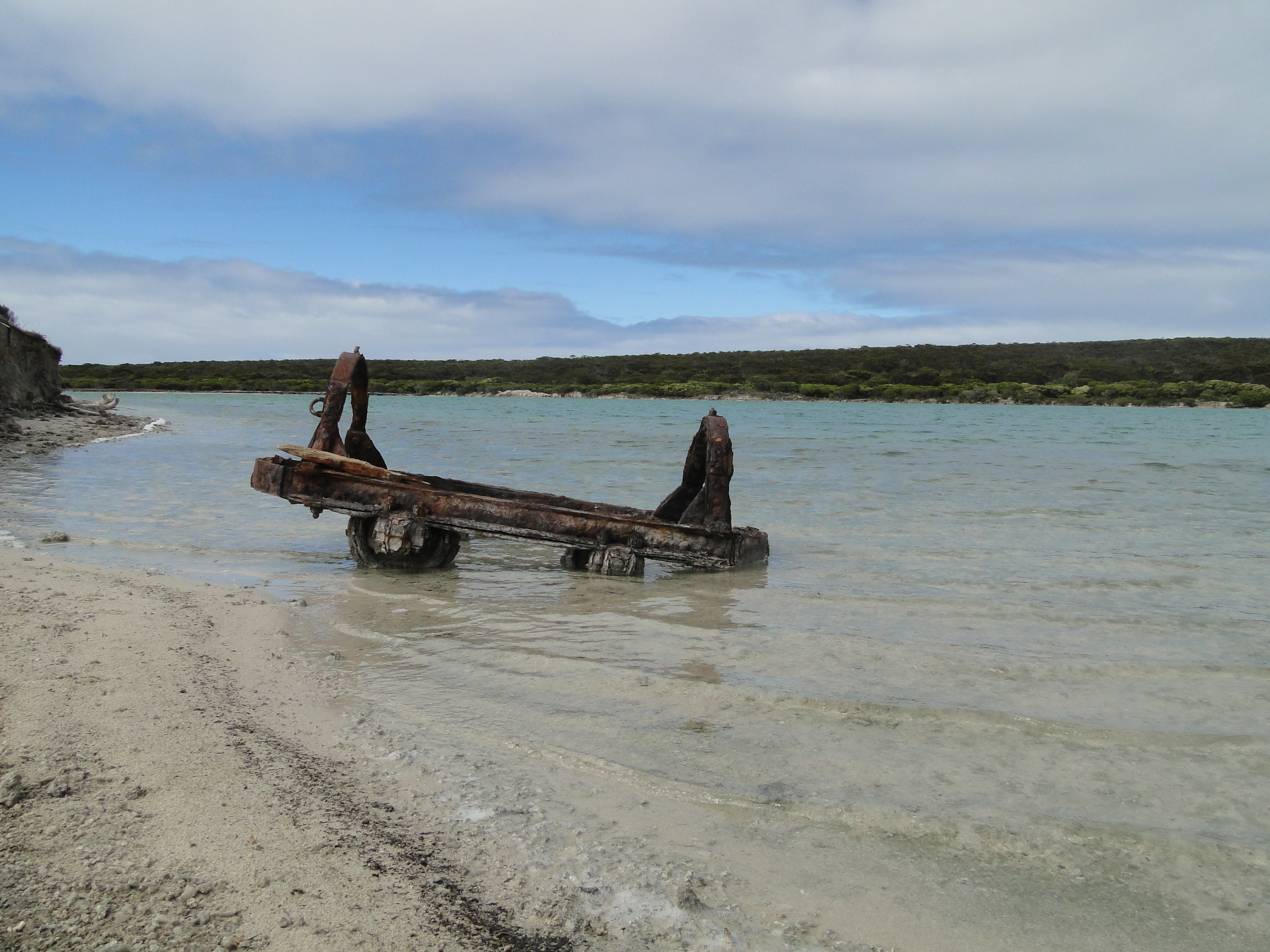 Abandoned gypsum mining equipment at Inneston, South Australia